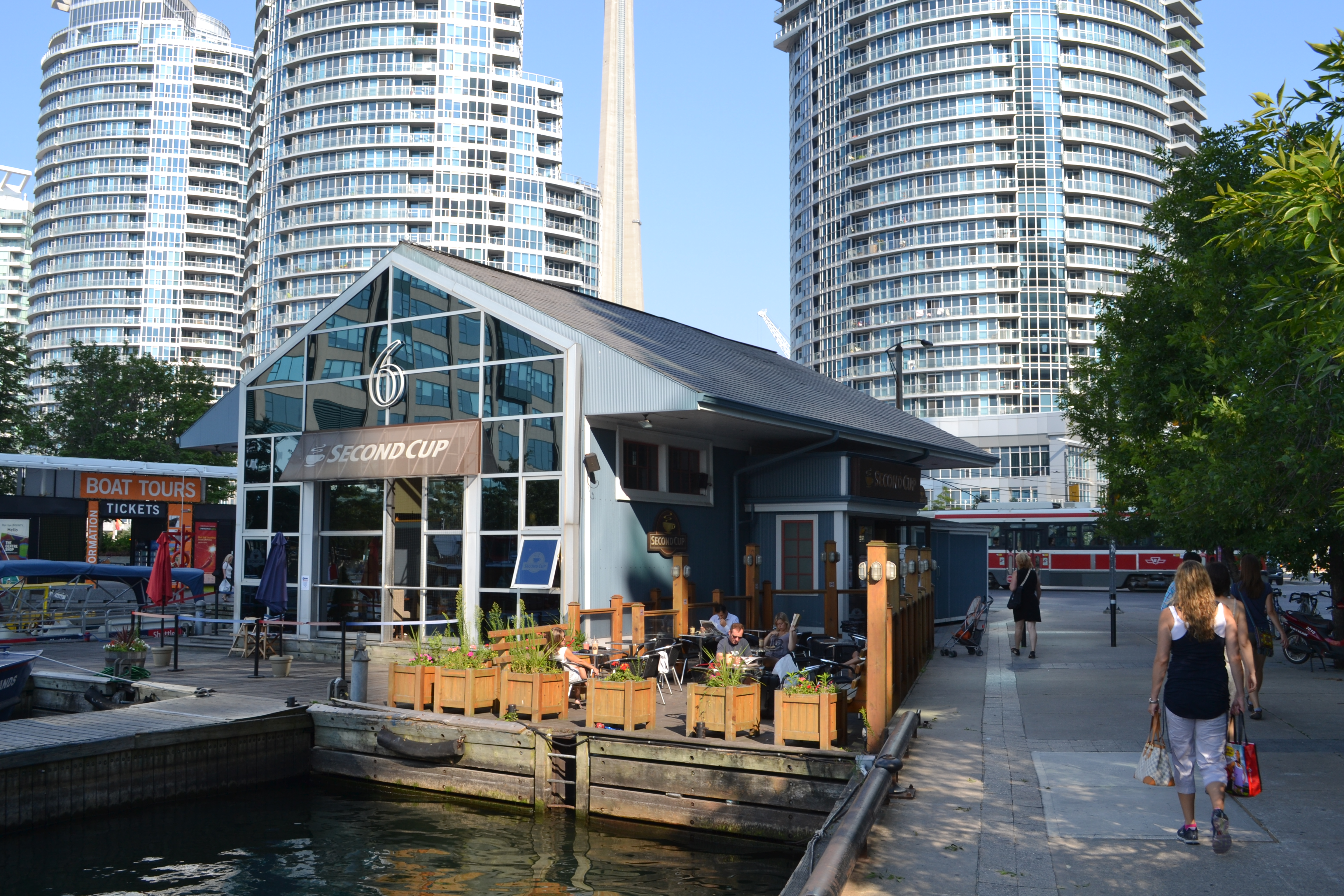 Pier Six Second Cup, 145 Queen’s Quay West